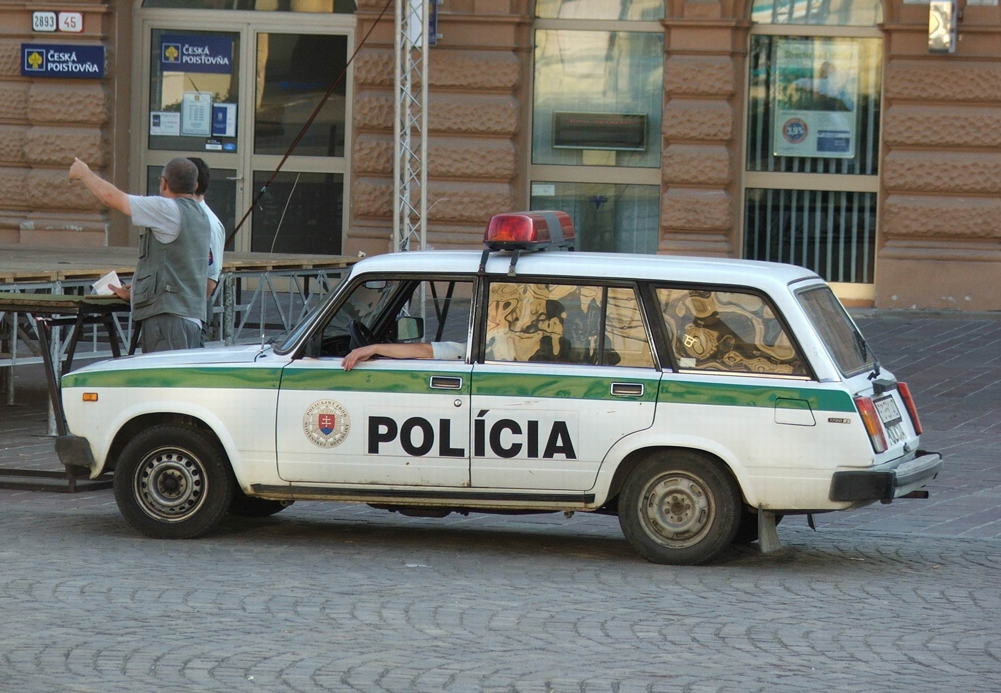 Police car in Prešov, Slovakia, 2005, Even in this year in Russian made Lada